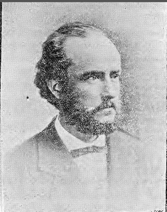 John Roberts MP Flint Boroughs.